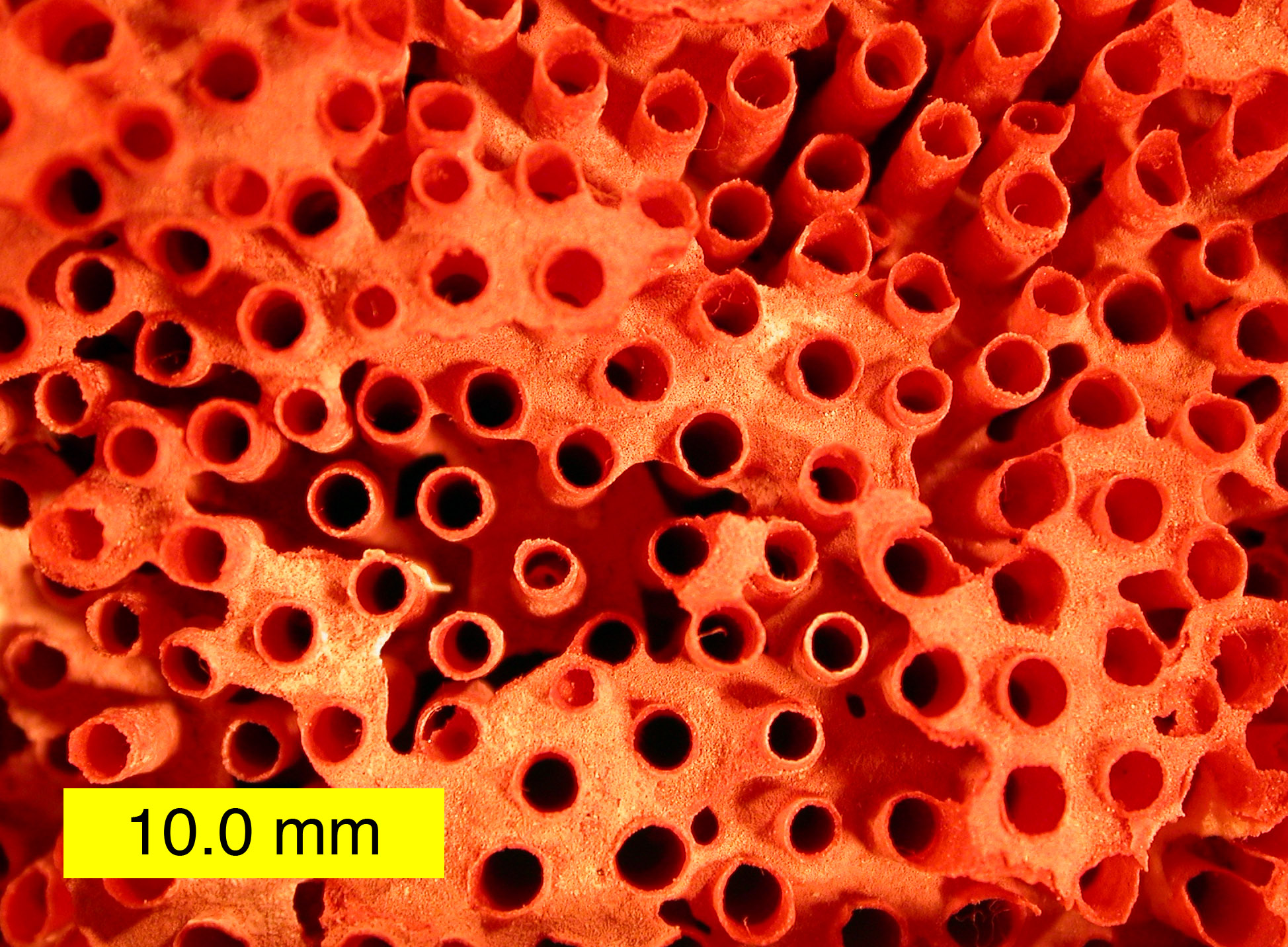 Close-up of modern Tubipora specimen.